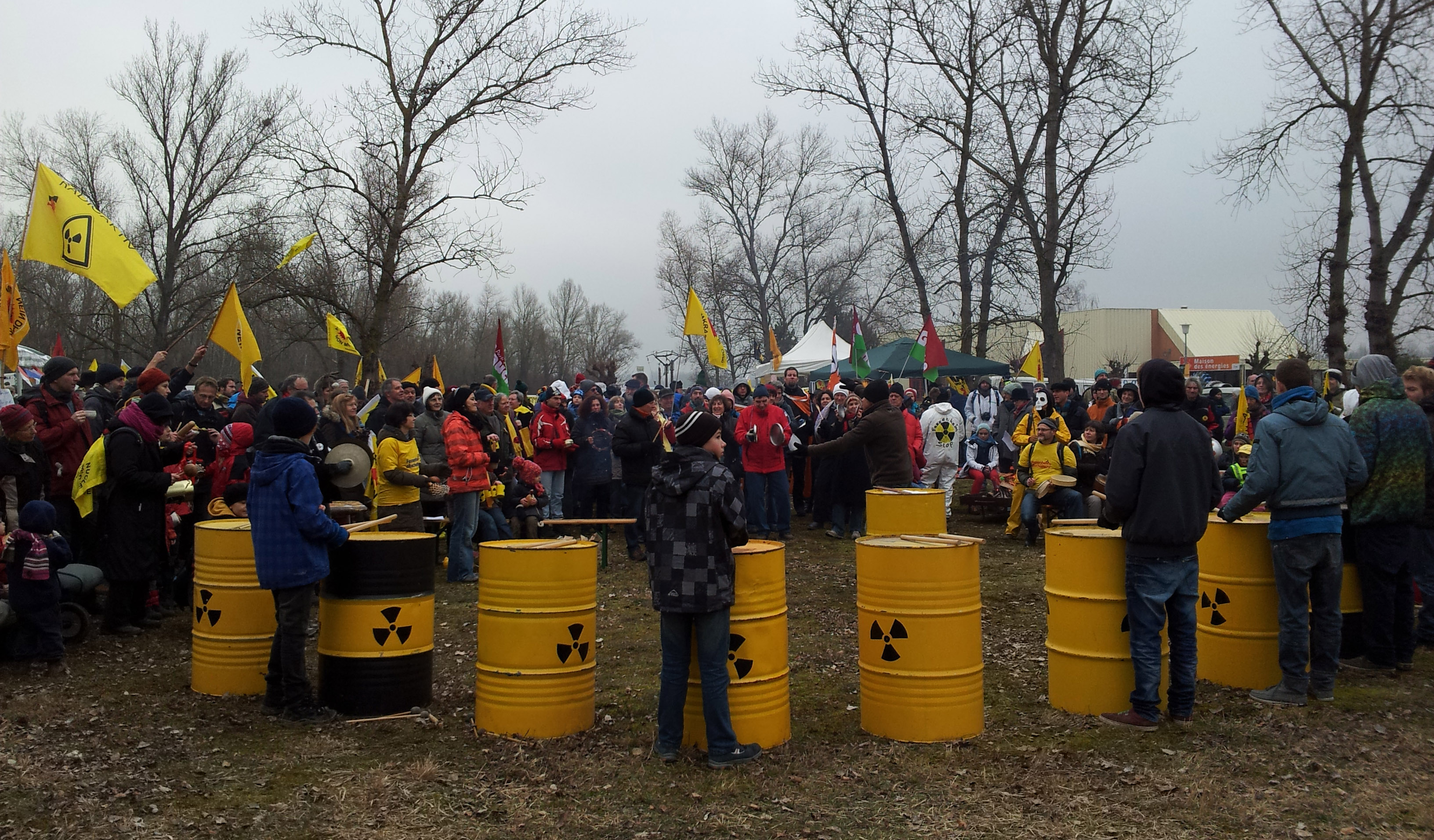 Protest against the nuclear power plant in Fessenheim, 13.01.2013